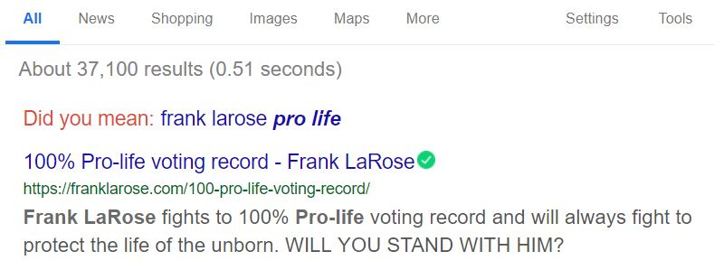 screen cap of google search for "frank larose prolife, conducted on Dec 12, 2018